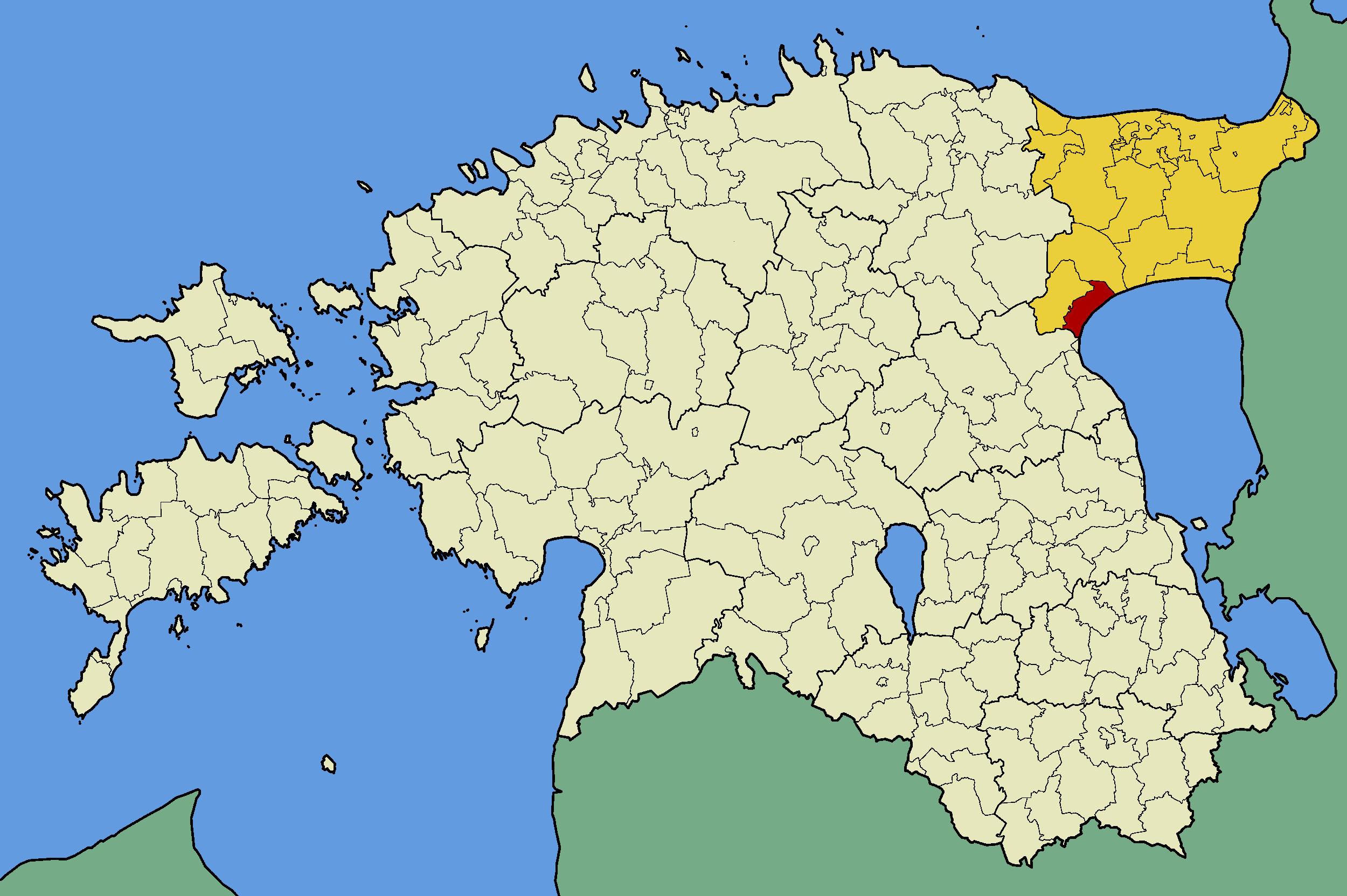 Map of Estonia with borders of municipalities (parishes). Ida-Viru county and Lohusuu municipality emphasized.